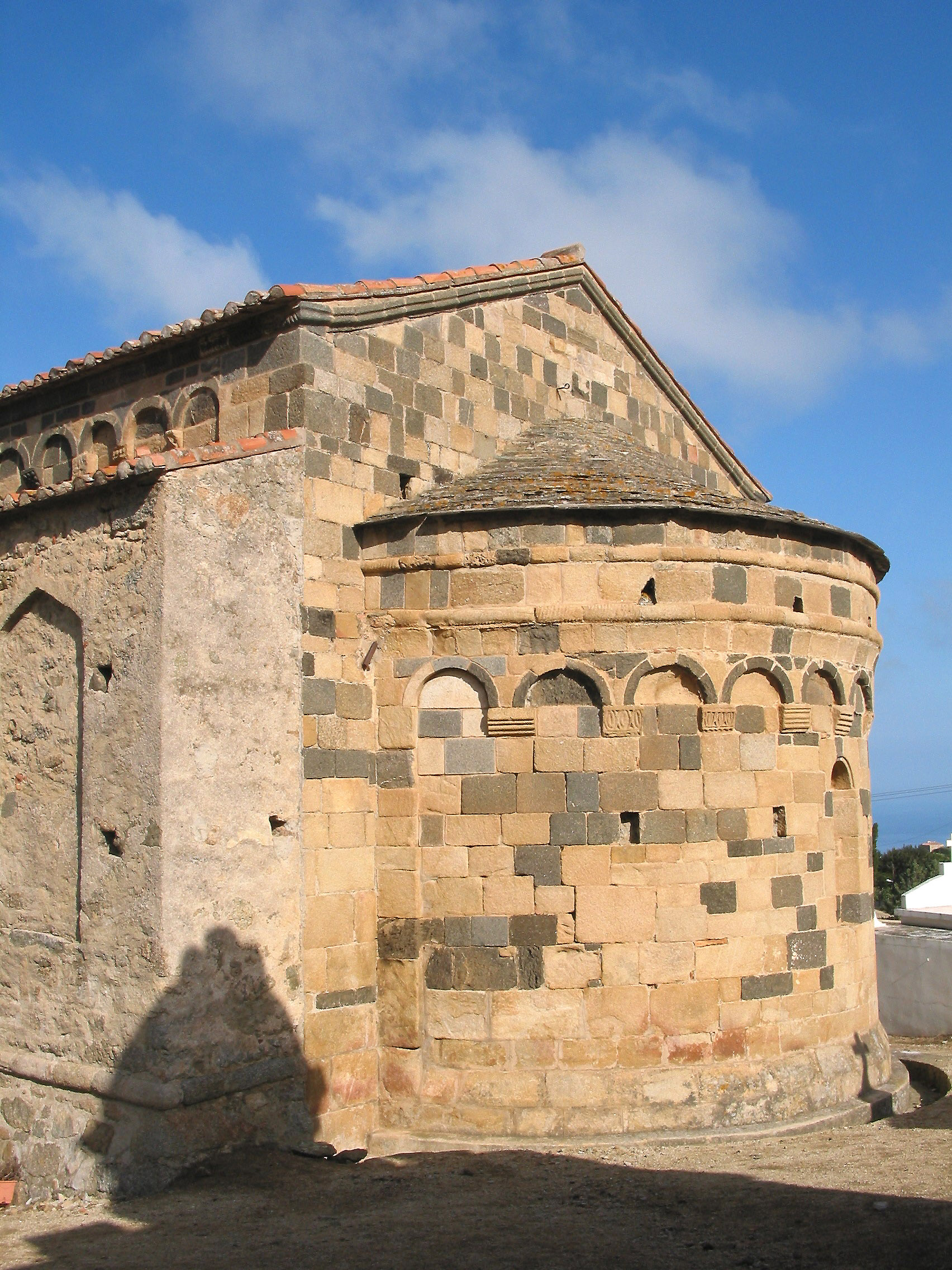 Aregno France (Haute-Corse), the church of the Trinity (XIIth century).